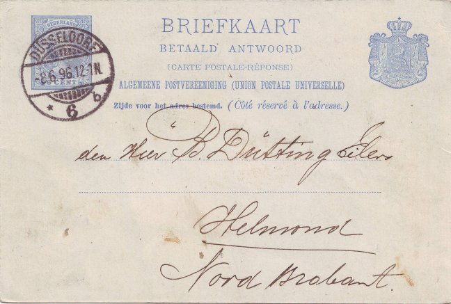 Reply part of a Dutch postcard with paid reply, sent from Düsseldorf (Germany) to Helmond (Netherlands) on 8 June 1896.